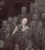 Alphonse Maeder at the International Psychoanalytic Congress. Photograph, 1911